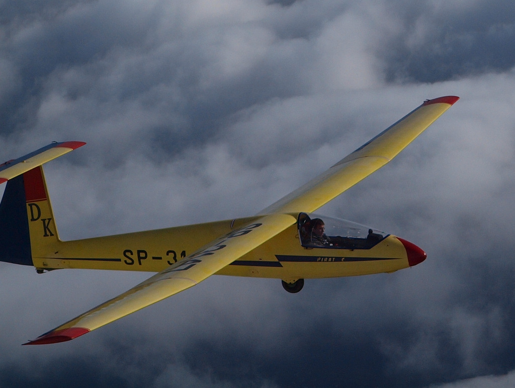 Glier SZD-30 Pirat